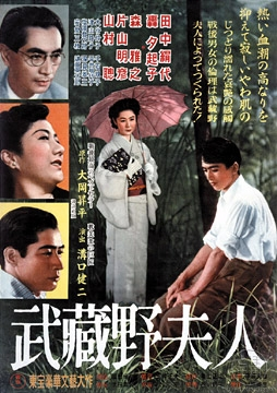 Movie poster for 1951 Japanese film Lady Musashino aka The Lady from Musashino (武蔵野夫人, Musashino Fujin).